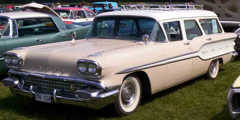 Pontiac Chieftain Safari 1958